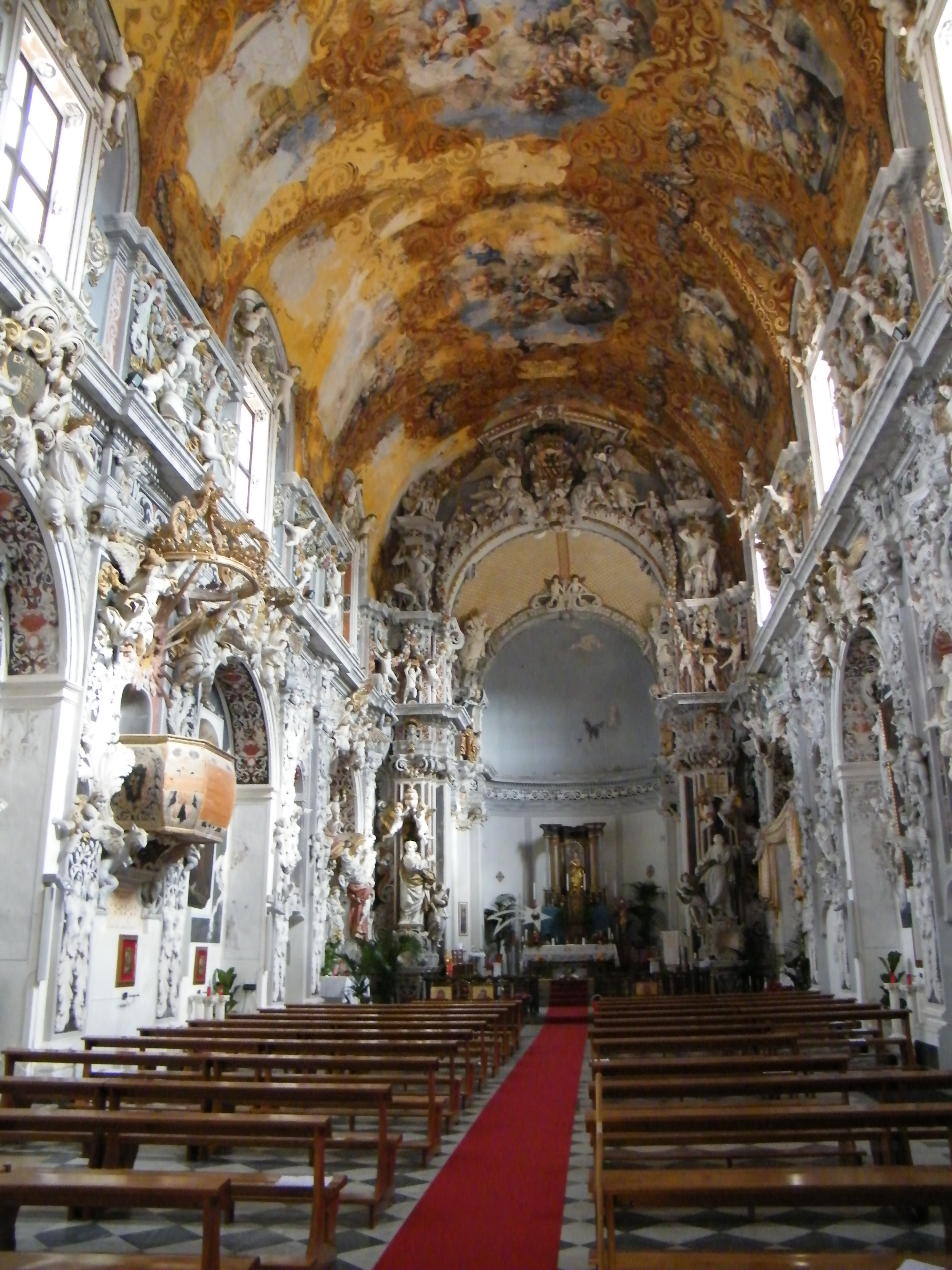 Saint Francis interior - north view - in Mazara del Vallo